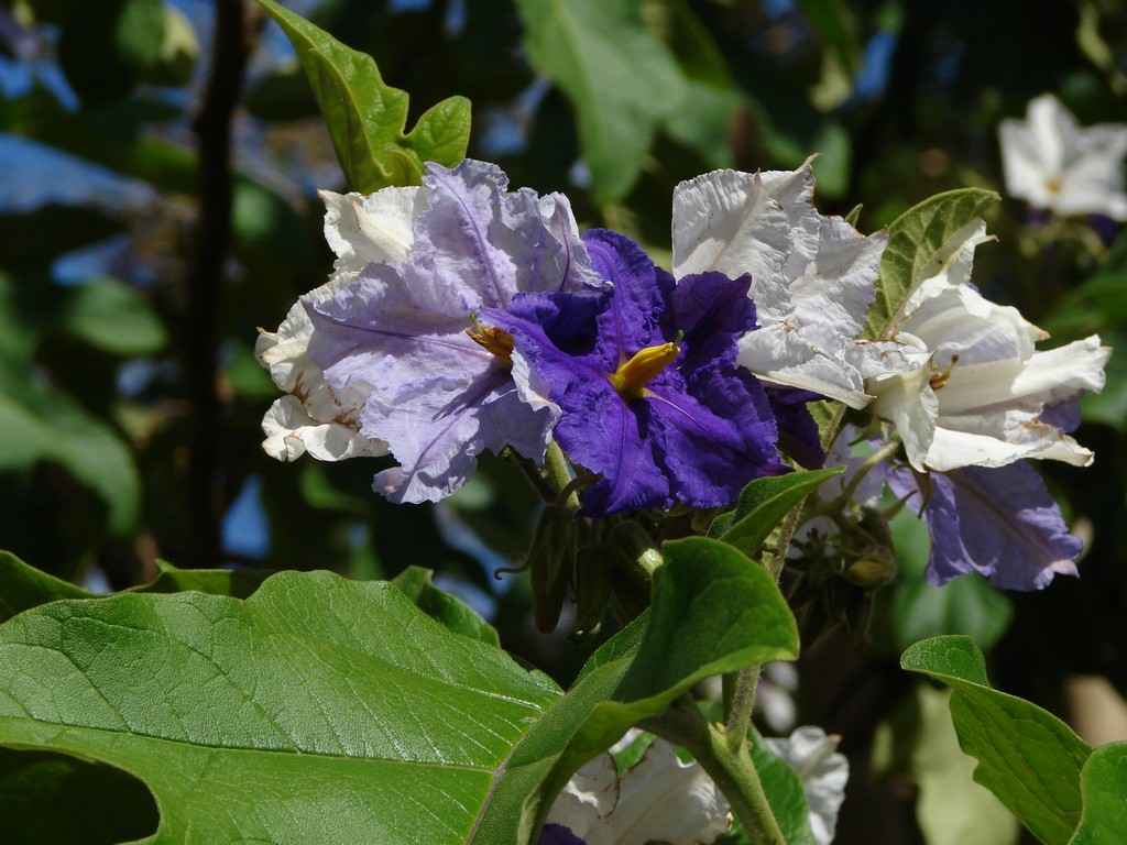 I knew about this tree/shrub, but I did not know that it is so beautiful and big till recently I saw it flowering in Mt. Coot-tha botanic garden. The flowers and tree is bigger than I thought, and it looks spectacular. Photos cannot show it, but try to see them in the link . Show: all my pics of "Giant Star Potato Tree" It is Solanum crinitum (more often known as S. macranthum), native to Brazil, and indeed close relative to ordinary potato. Flowers change (fade) their colour from purple to white. It resembles Brunfelsia - the photo I included below.